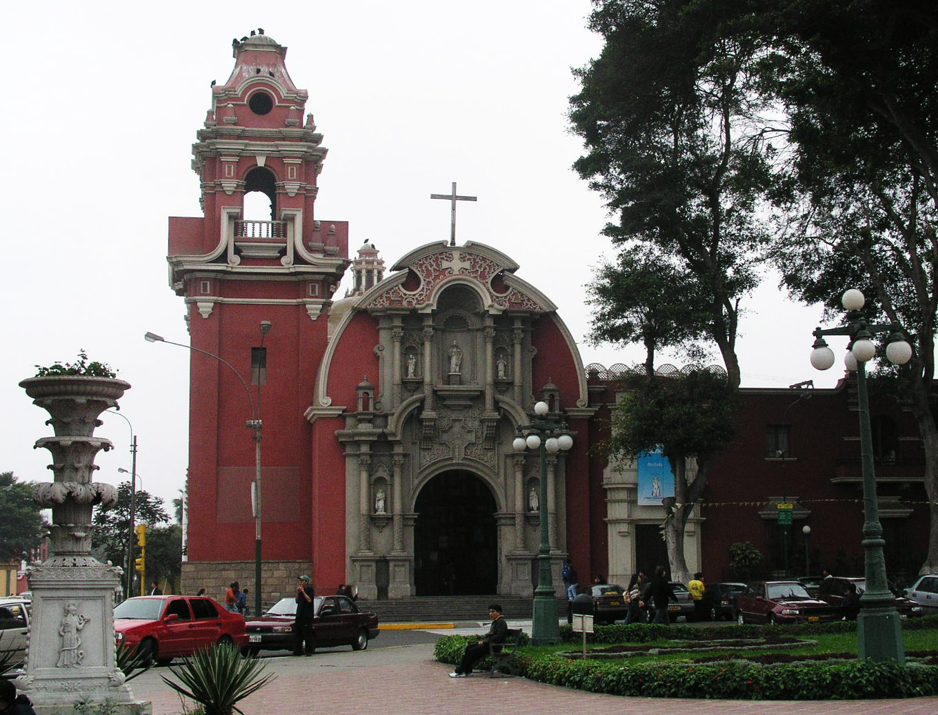 This is the church in the middle of Barranco, just in front of the library. The picture has been slightly corrected in brightness and contrast.